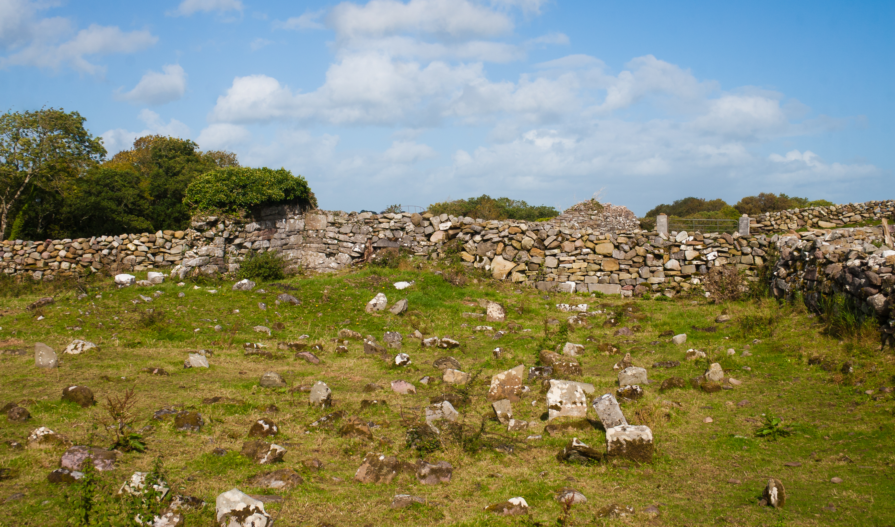 Children's burial ground in front of the monastic site on the island of Inishmicatreer at Lough Corrib.